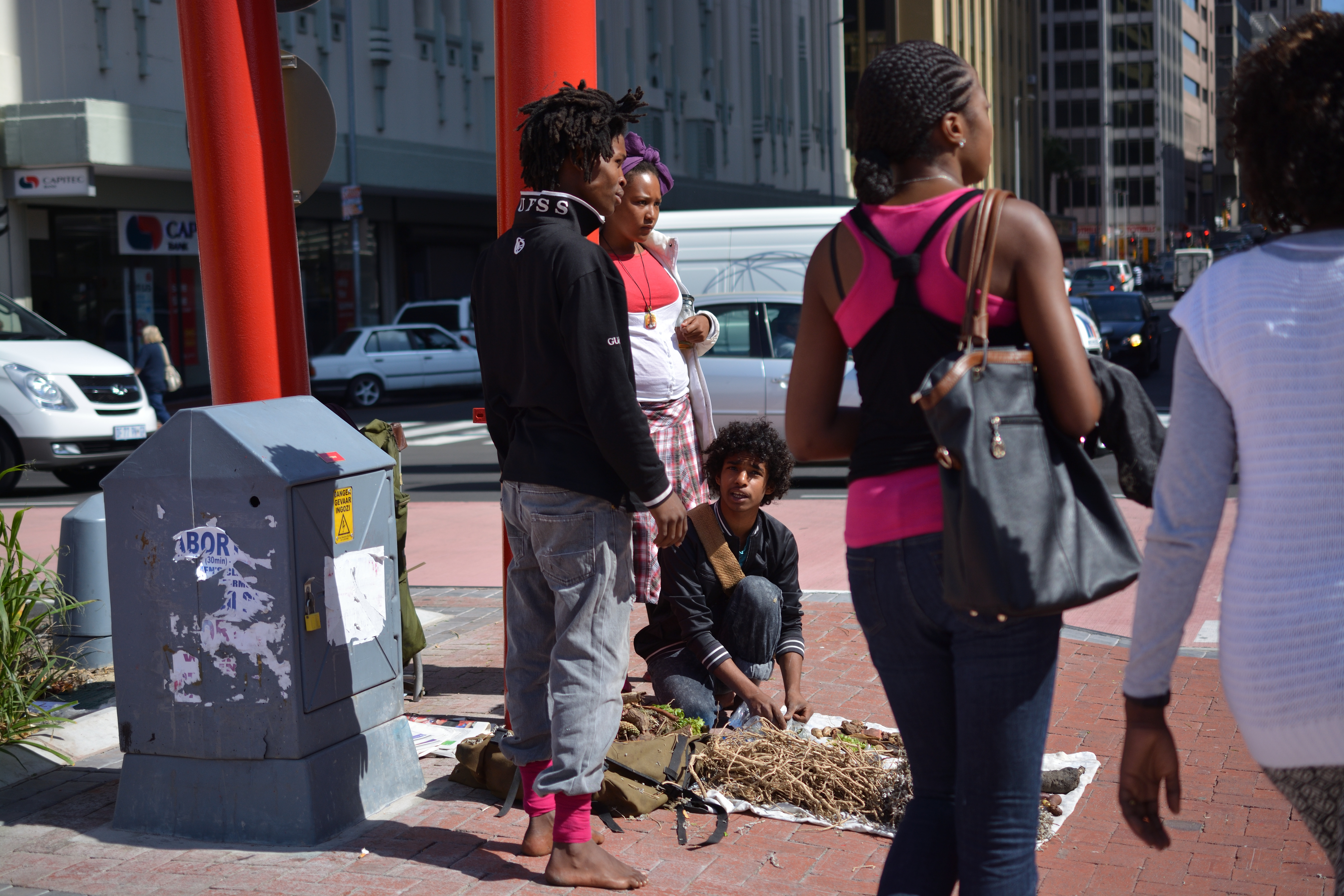 This is an image of "African people at work" from South Africa